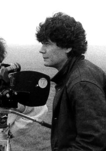 Canadian filmmaker Damian Pettigrew on location on the Moors of England.